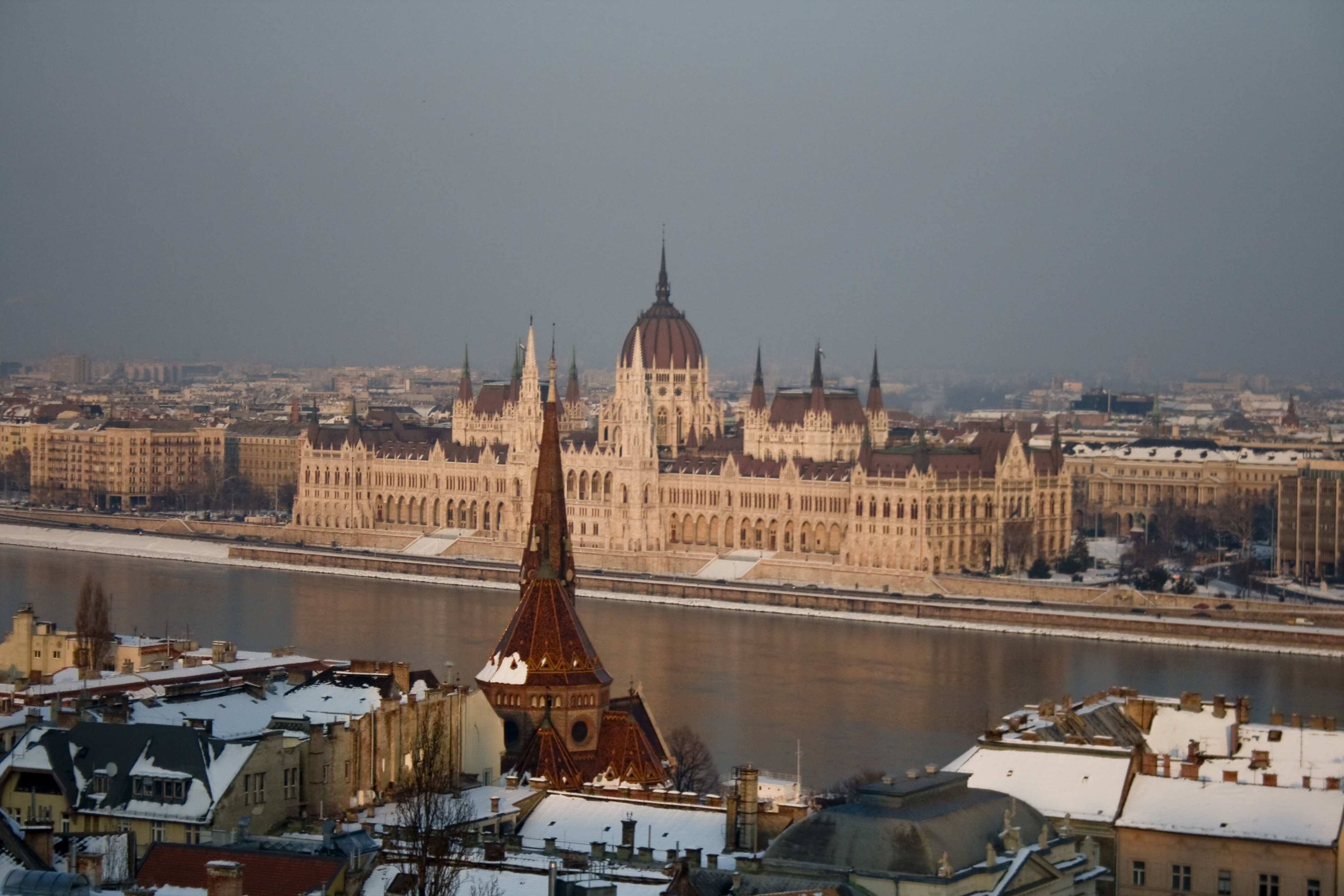 Parliament, Budapest